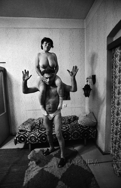 Jaroslav Kučera´s photography Personality rights warningAlthough this work is freely licensed or in the public domain, the person(s) shown may have rights that legally restrict certain re-uses unless those depicted consent to such uses. In these cases, a model release or other evidence of consent could protect you from infringement claims.